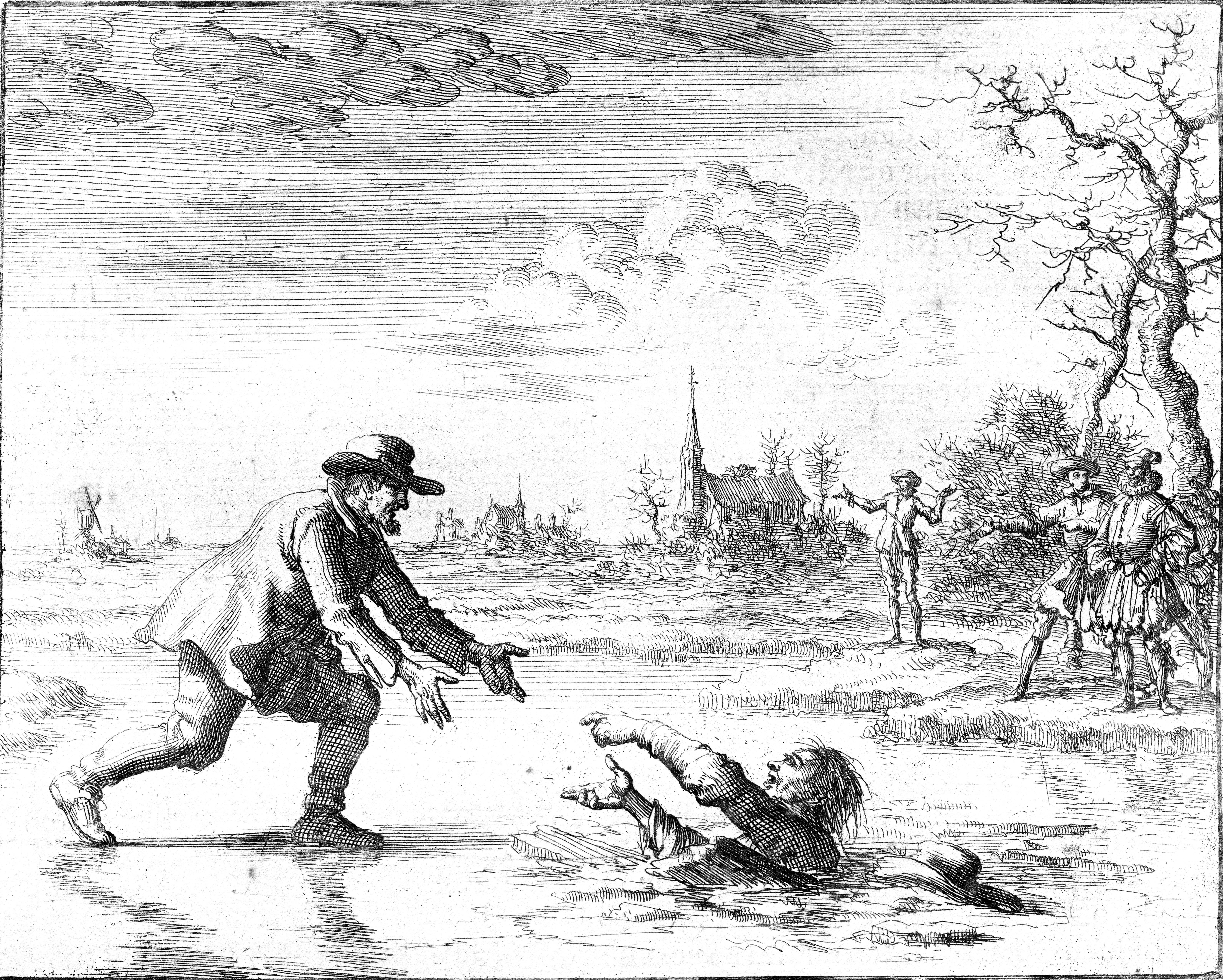 Dirk Willems' captor, who had been chasing Willems prior to falling through the ice